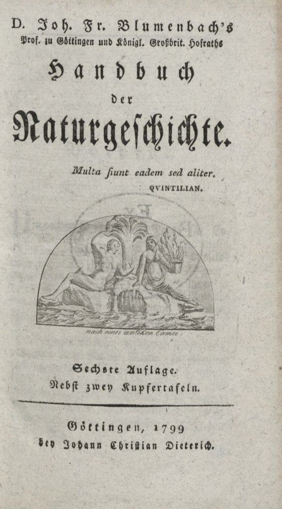 Front page Handbuch der Naturgeschichte from 1799 6th edition